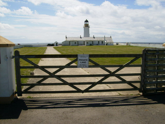 TV Presenter Jeremy Clarkson's Lighthouse Cottages at Langness Mr & Mrs Clarkson purchased the cottages and surrounding land at Dreswick Point on Langness for £1.25 million in 2005.